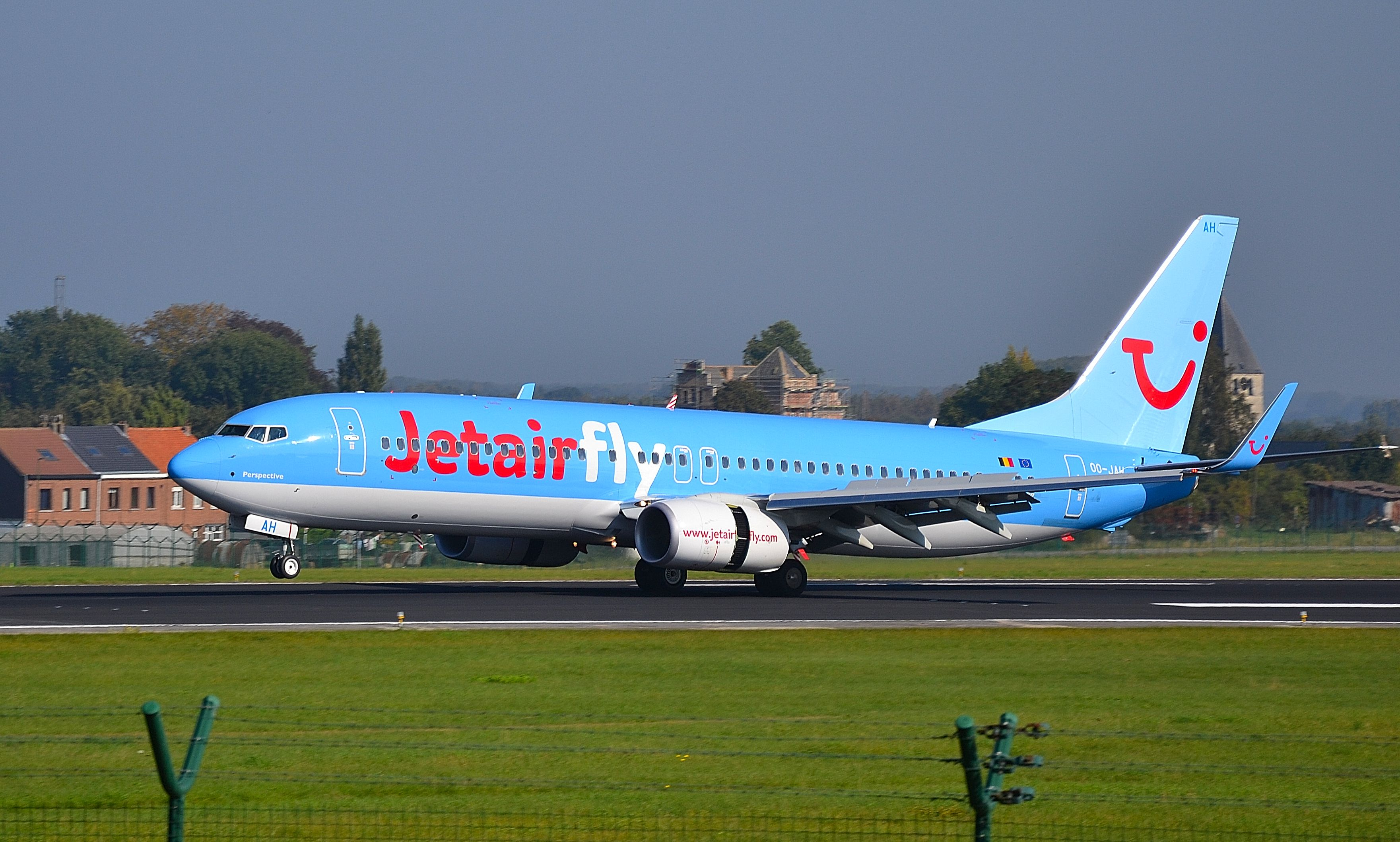 This is the newest B737-800 of Jetairfly. It's registration is OO-JAH.